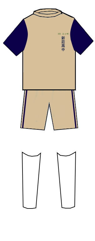 New Taipei Municipal Hsinchuang Senior High School Summer Sportwears